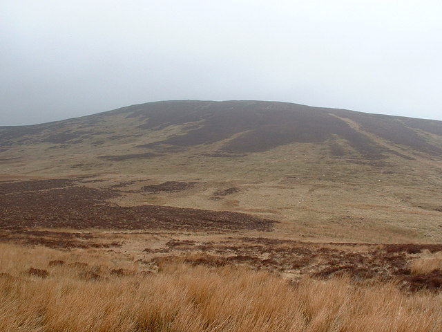 Foel y Geifr, 3 km from Ty-Nant, Gwynedd, Wales. View of the mountain from the minor road from Lake Vyrnwy to Bala through Cwm Hirnant. The road runs through the adjoining square.